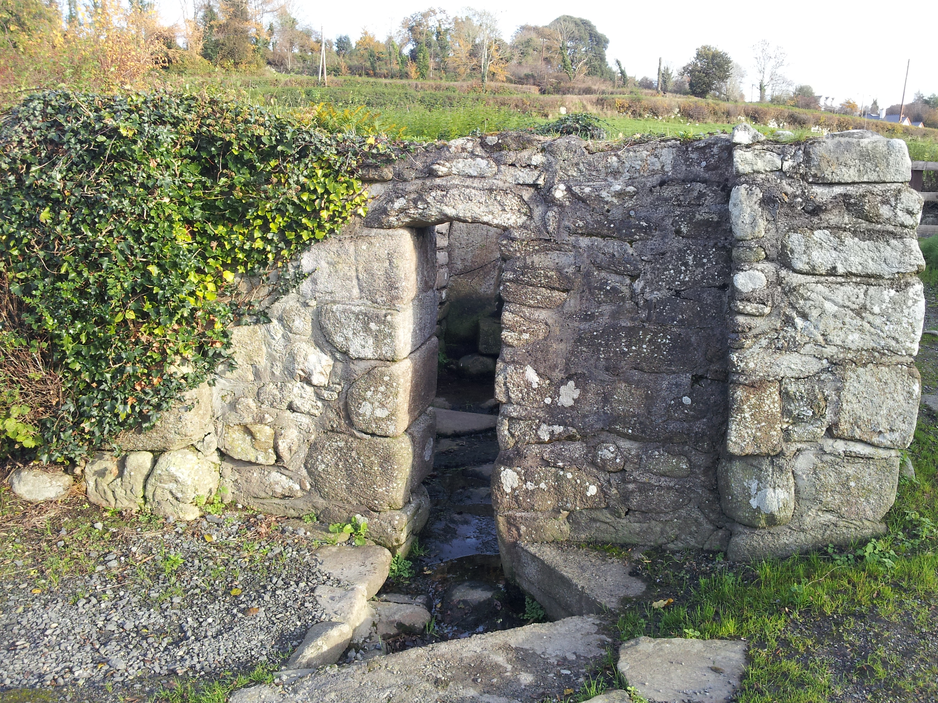 St. Mullins Early Medieval Ecclesiastical Site